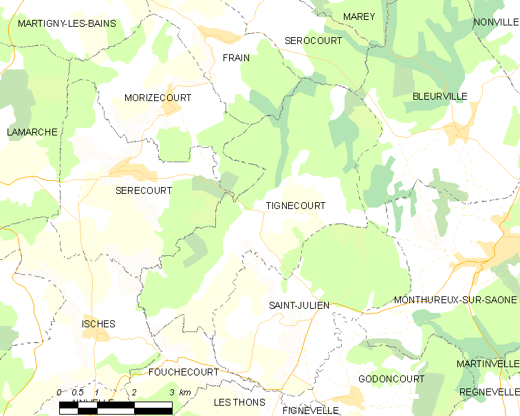 Map of French municipality Tignécourt